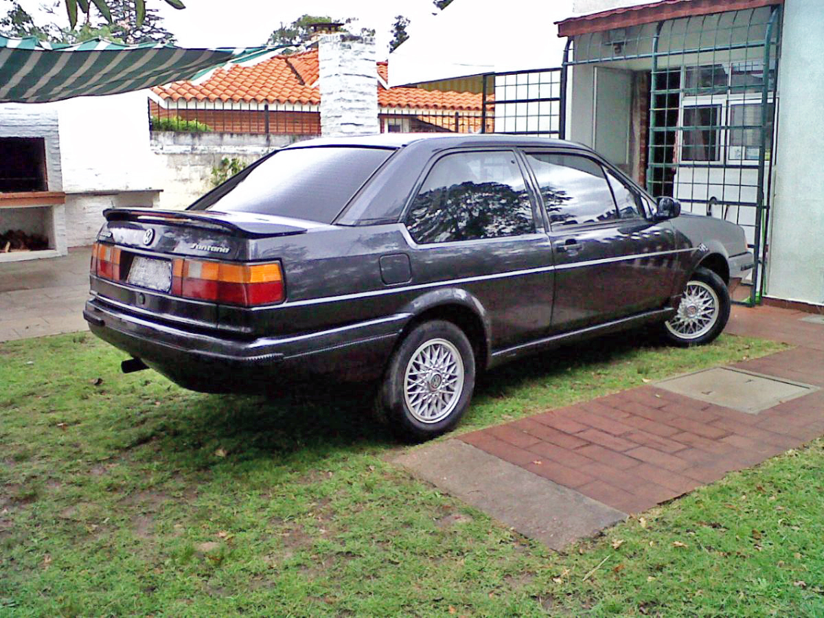 1992 Brazilian Volkswagen Santana GLS 2000 2 door sedan